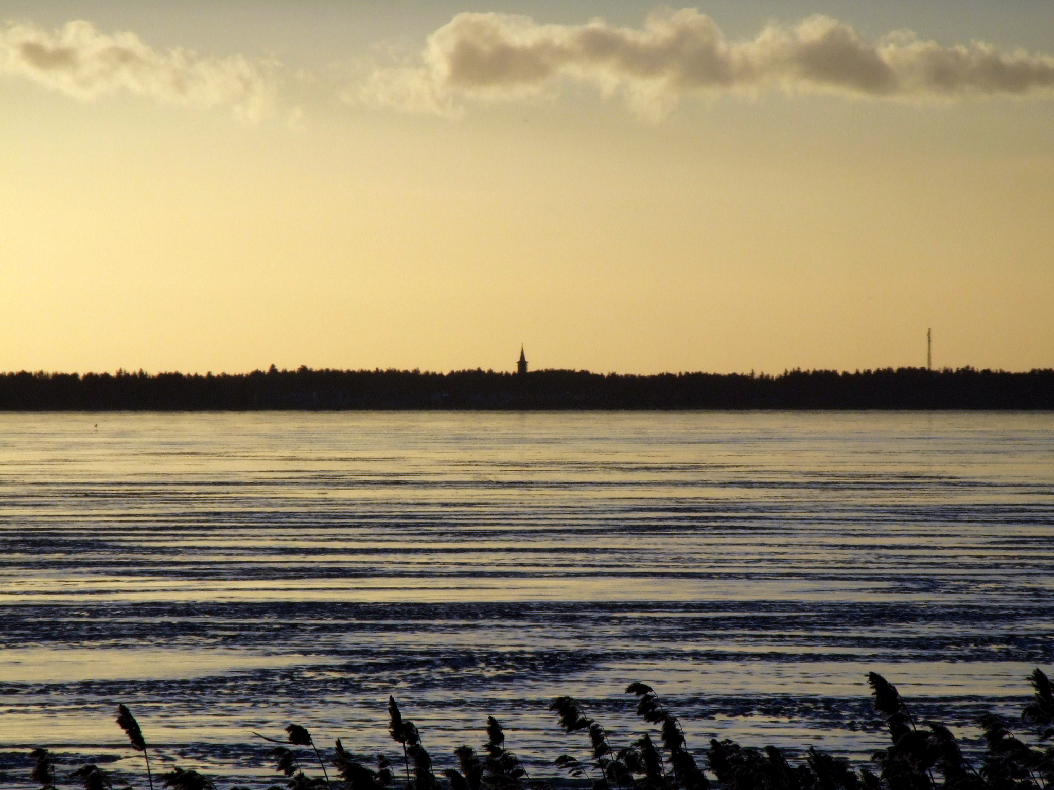 A view over the Kempele Bay in Oulu, Finland. The belfry of the Oulunsalo church can be seen on the opposite shore.